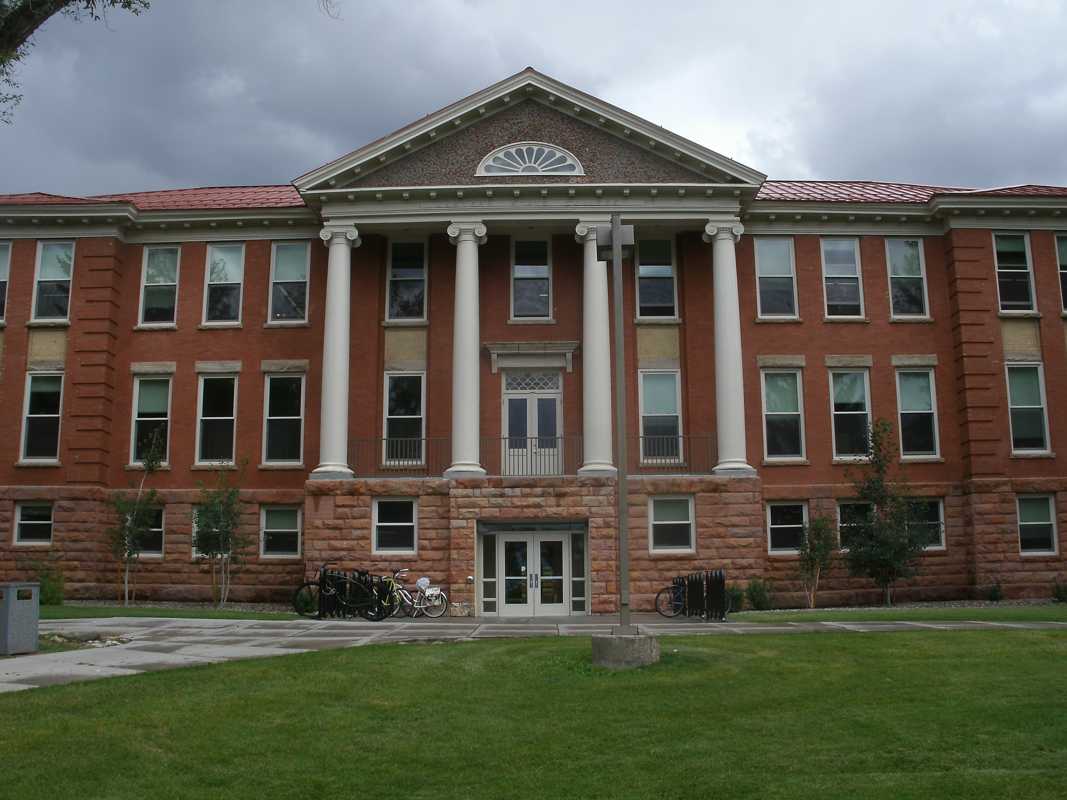 Photo of the State Normal School of Colorado building. This original structure was called North Hall and is the north end of Taylor Hall at the Western State Colorado University.